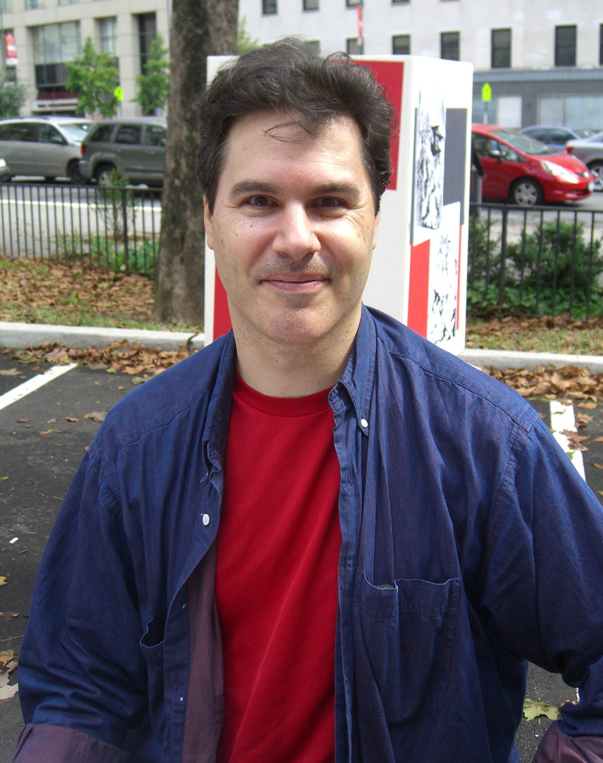 Comic book creator Scott Hanna at the 2009 Brooklyn Book Festival.